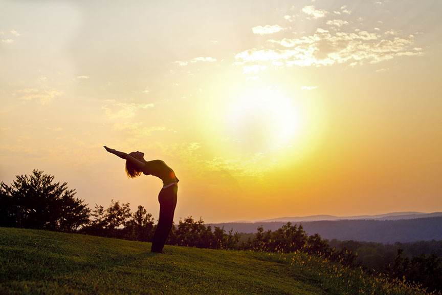 A yogini practices yoga at Kailash, a shrine at the Integral Yoga World Headquarters.